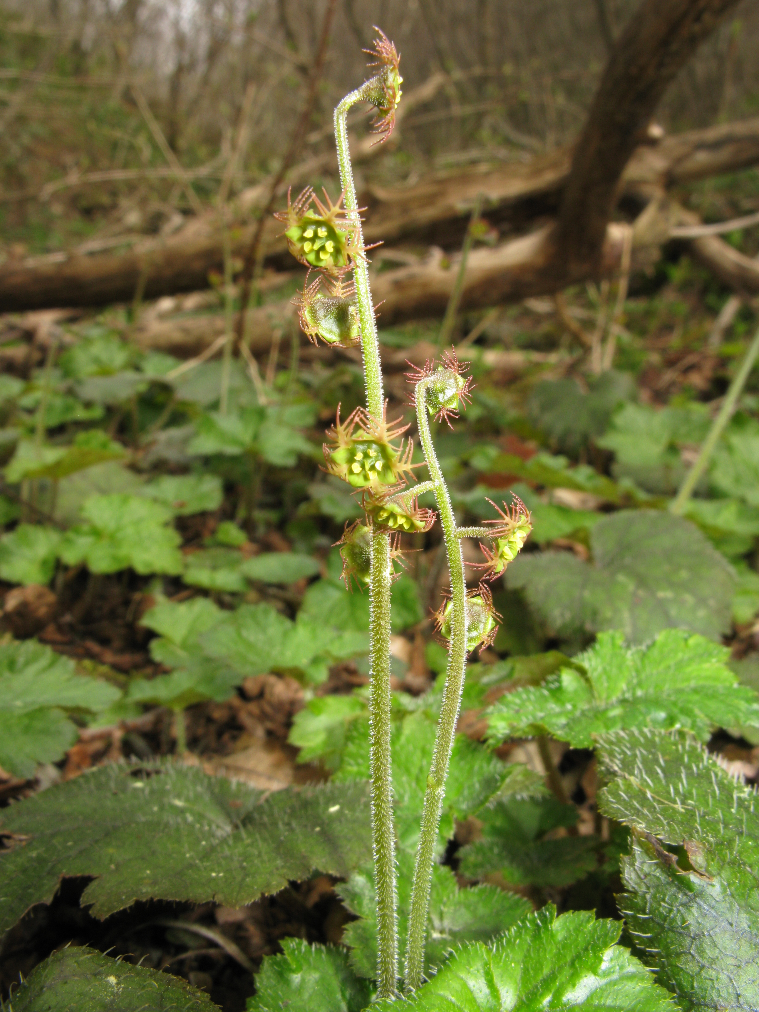 Mitella pauciflora, Aizu area, Fukushima pref., Japan